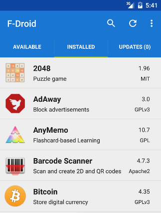 F-Droid screenshot.